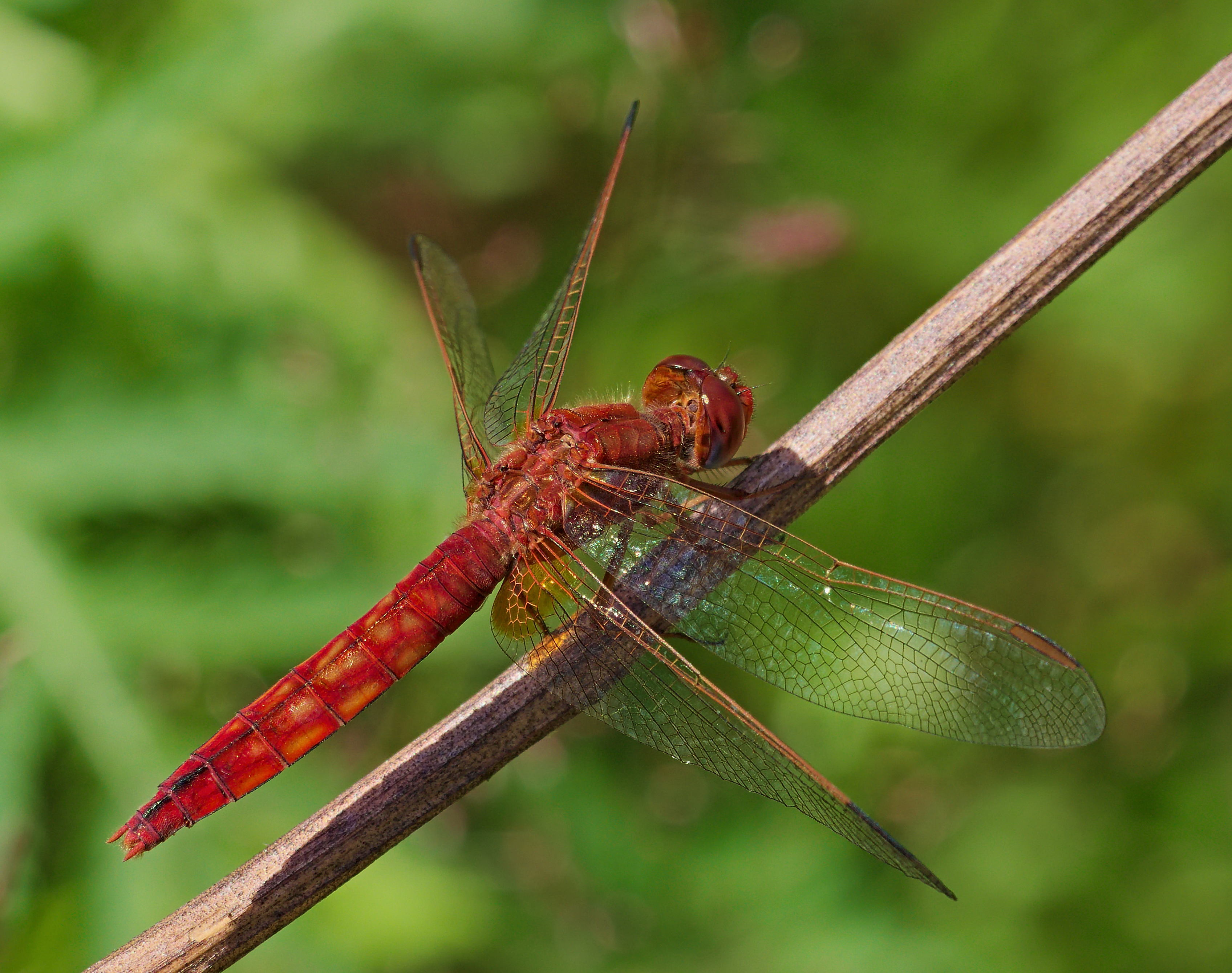 Scarlet dragonfly - Crocothemis erythraea, red female. Taken in Viernheim, Hesse, Germany.